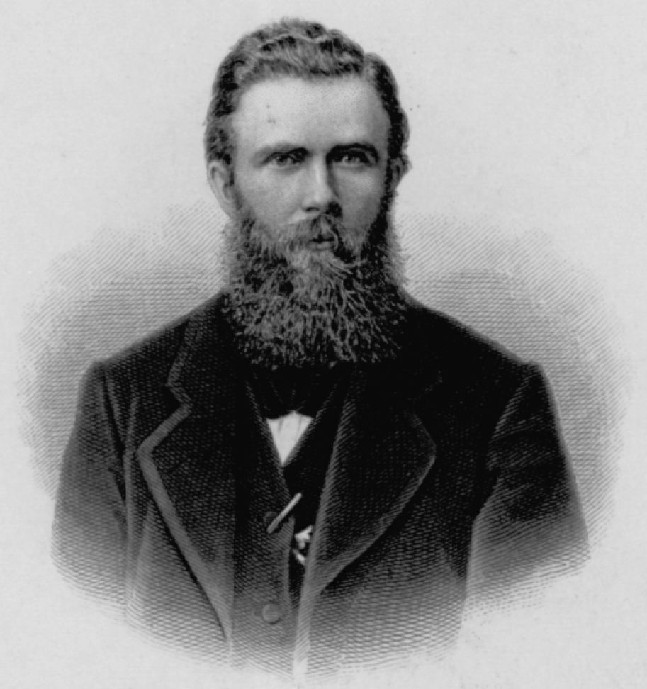 Portrait of Ernst Rudorff. Etching based on photograph.